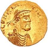 Tremissis of Constans II Pogonatus.